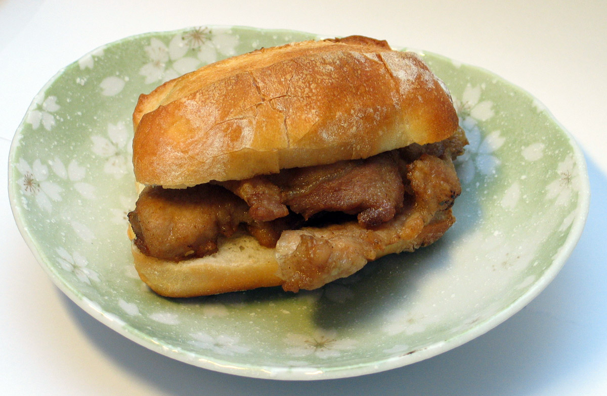 Pork Chop Bun from Dai Lei Cafe in Taipa, Macau. 澳門氹仔大利來記的豬扒包 Photo taken by Glio